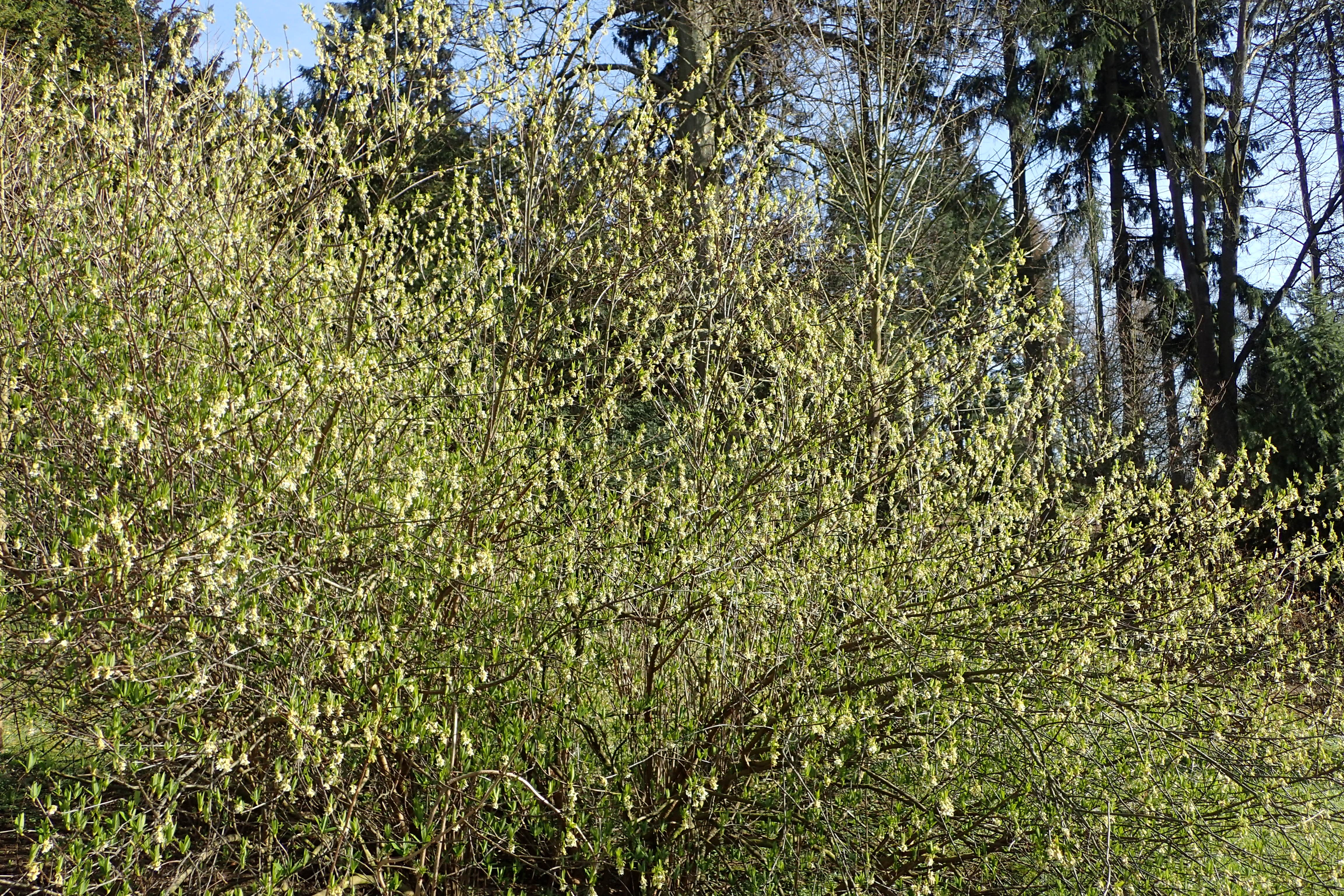 Oemleria cerasiformis in arboretum in Glinna, NW Poland